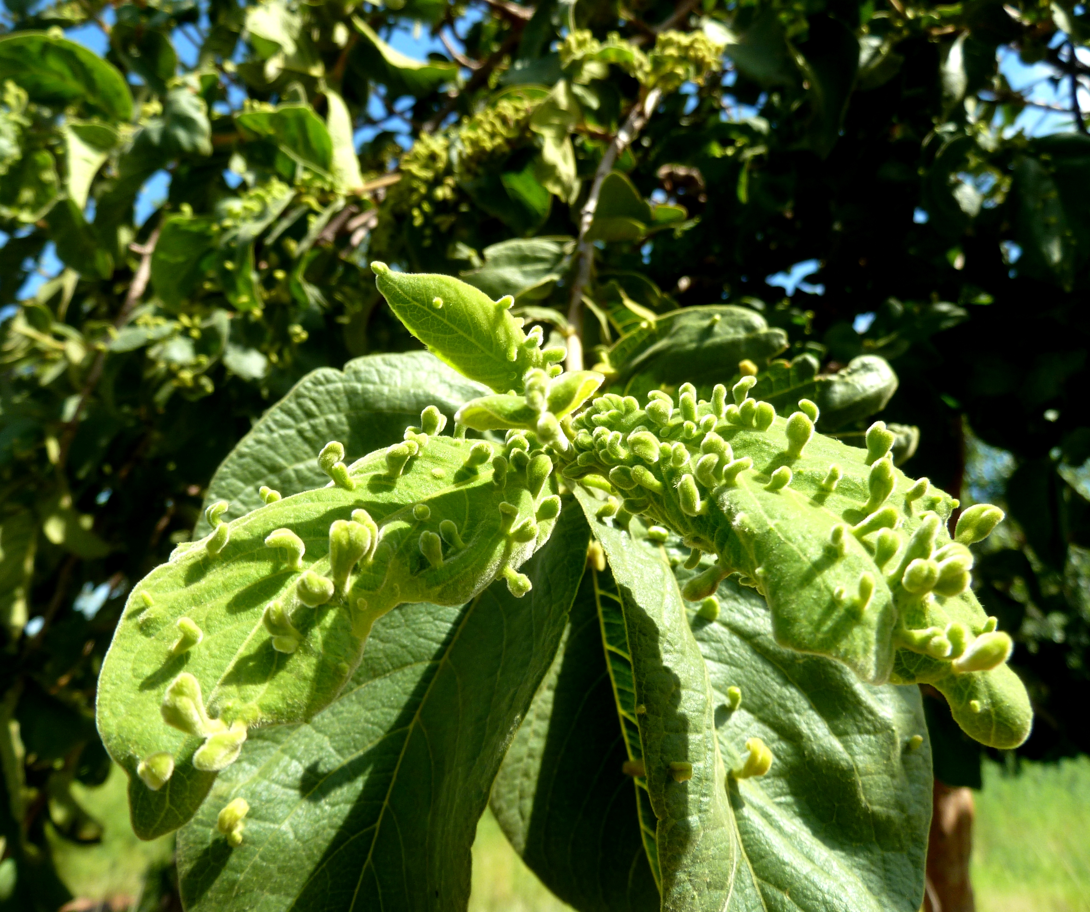 Acalitus mallyi mite galls on the leaves of a Wild medlar in Akasia, Pretoria, South Africa